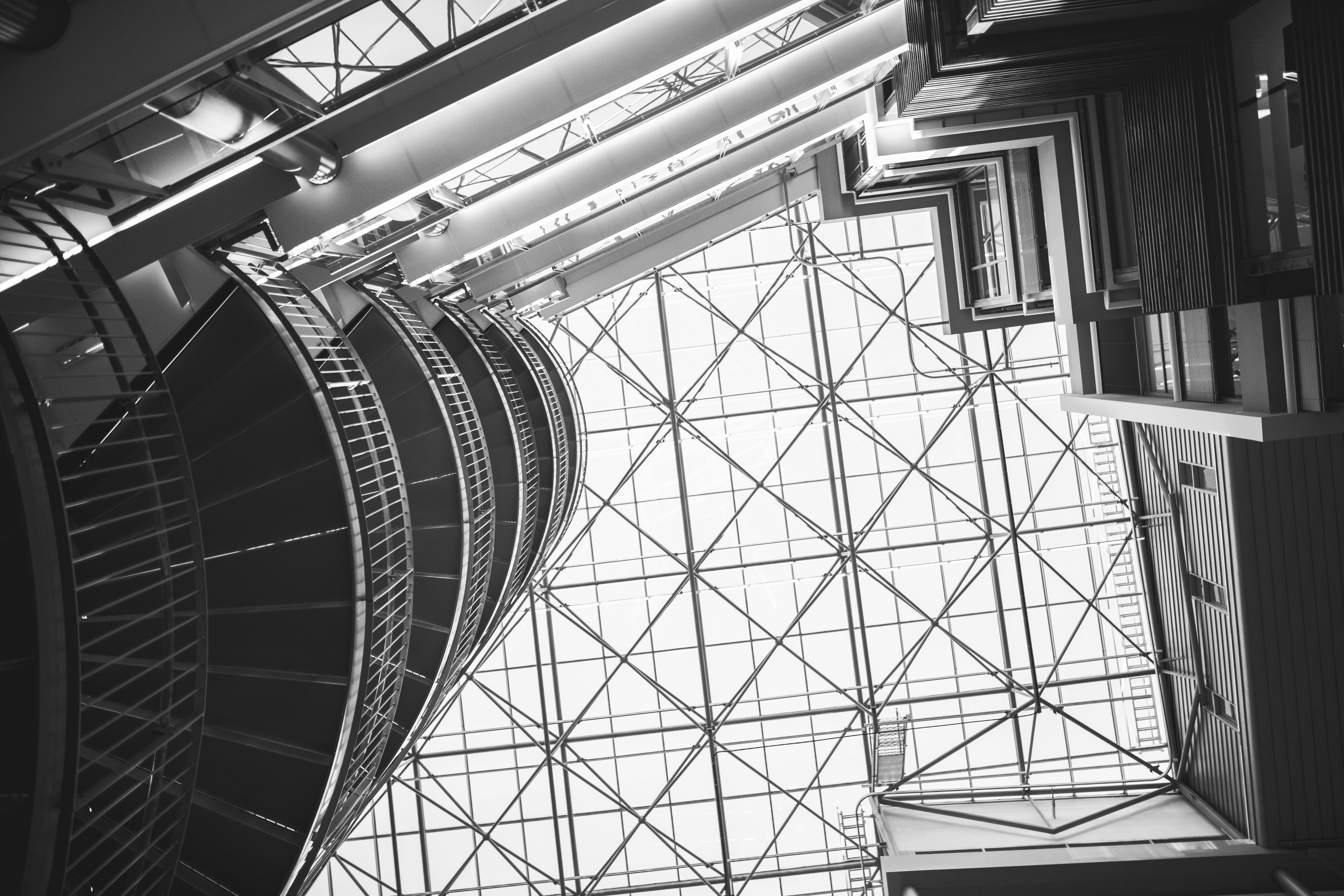 PIC